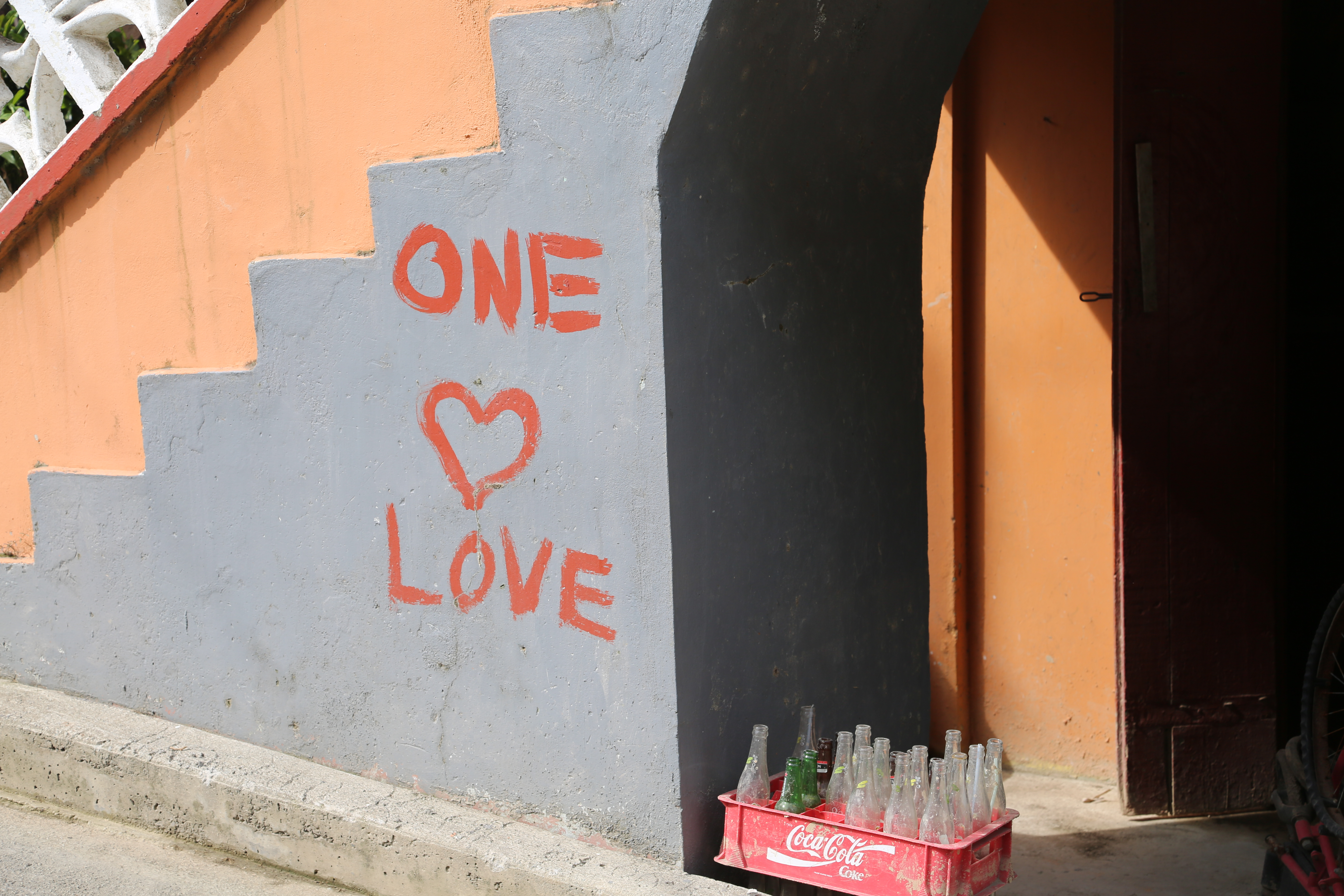 The village of Pichelin lies on the Loubiere to Bagatelle Road. Hurricane Maria caused extensive damage, with high winds resulting in many of the houses losing their roofs, and the intense rainfall flooding the entire village, destroying houses and cars. UK aid and the Catholic Relief Service are two British charities currently offering support in the area. In addition, last year the UK allocated £25m for a climate resilient road between Loubiere and Bagatelle. This would have better flood drainage so the road would not be destroyed in a hurricane and would be built to withstand a natural disaster. Picture: Tanya Holden/DFID